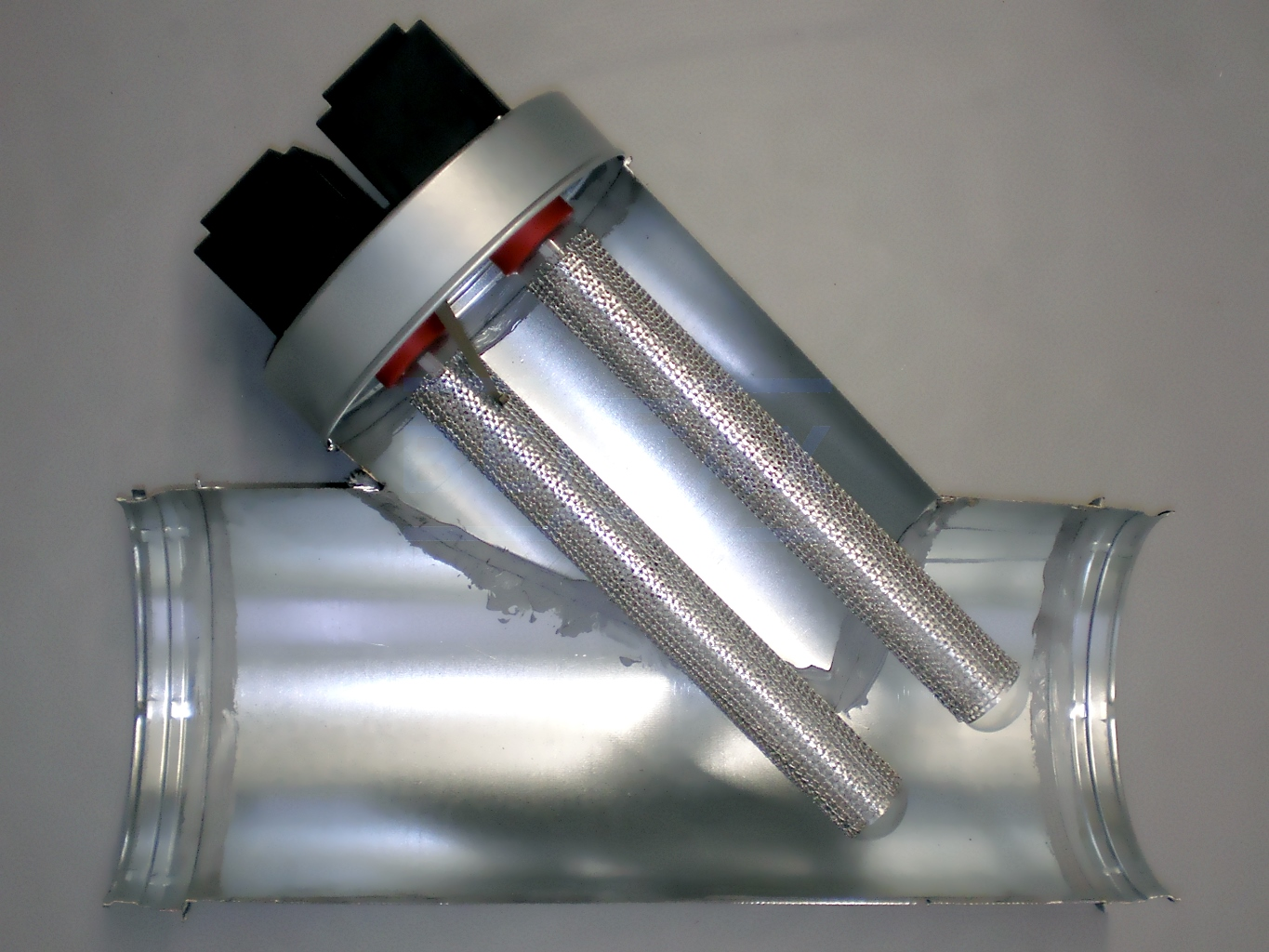 Section of a ventilation duct with 2 PR250-modules with respective ionization tube.